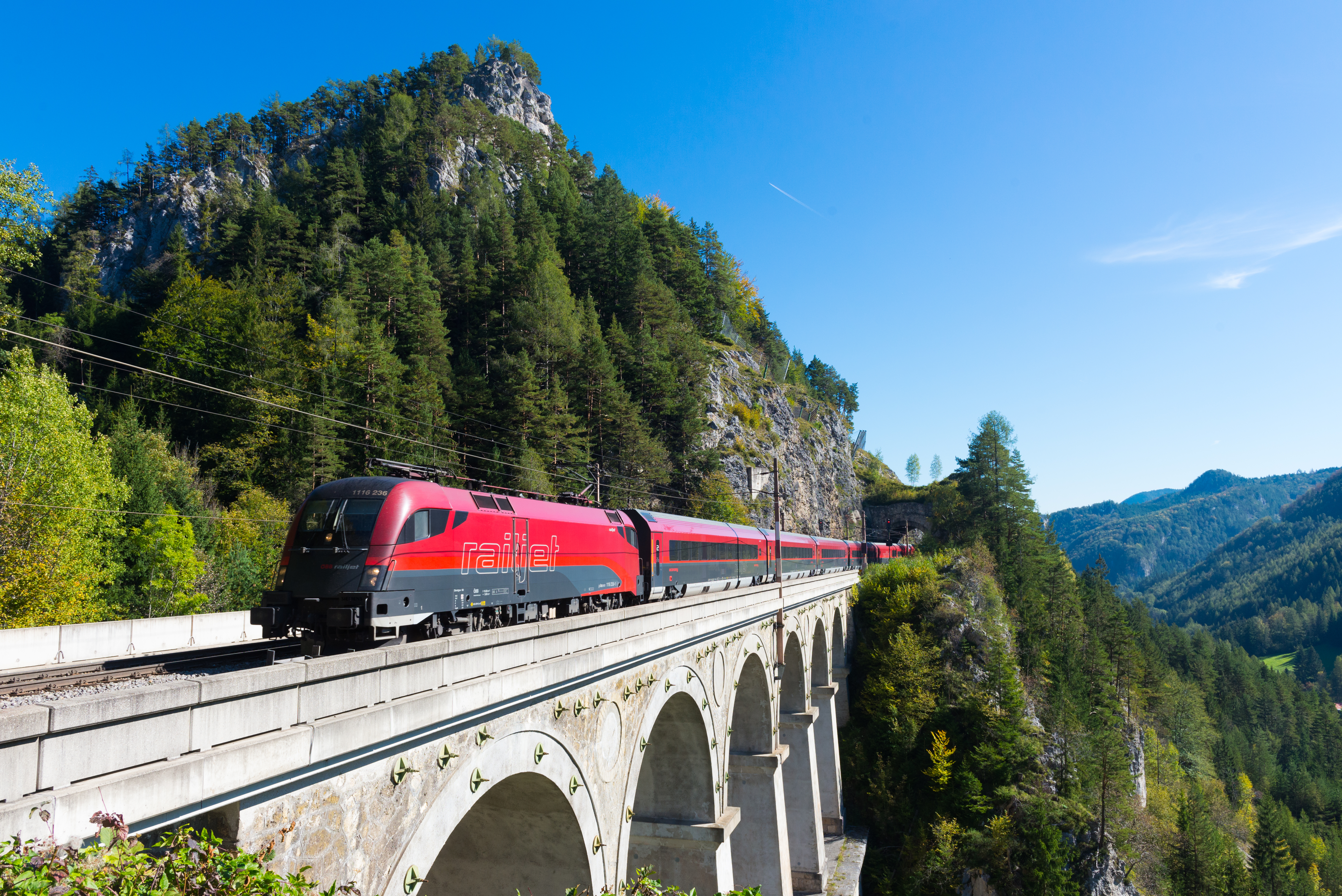 ÖBB 1116-236 tows Railjet 71 over the Krauselklause-Viaduct on a late summer day.